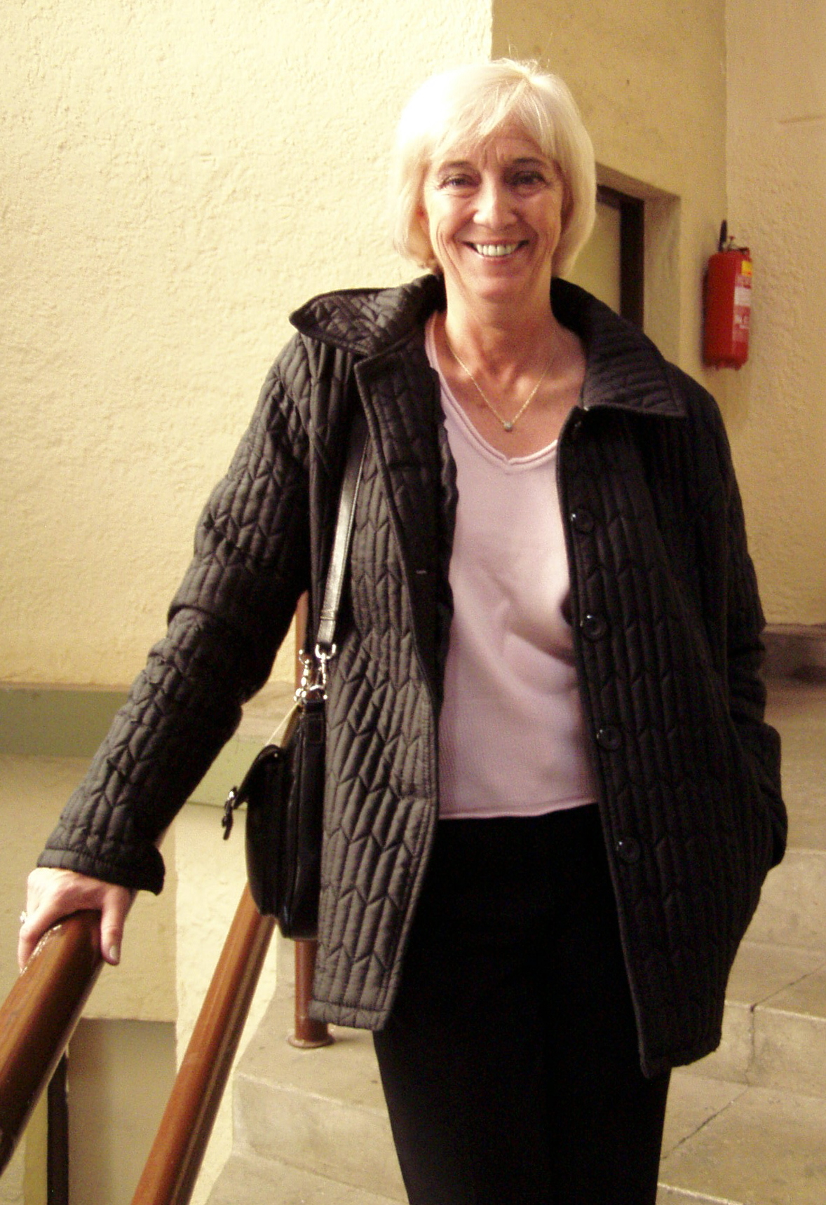 Diane Towler at the Nebelhorntrophy 2006 in Oberstdorf, Germany